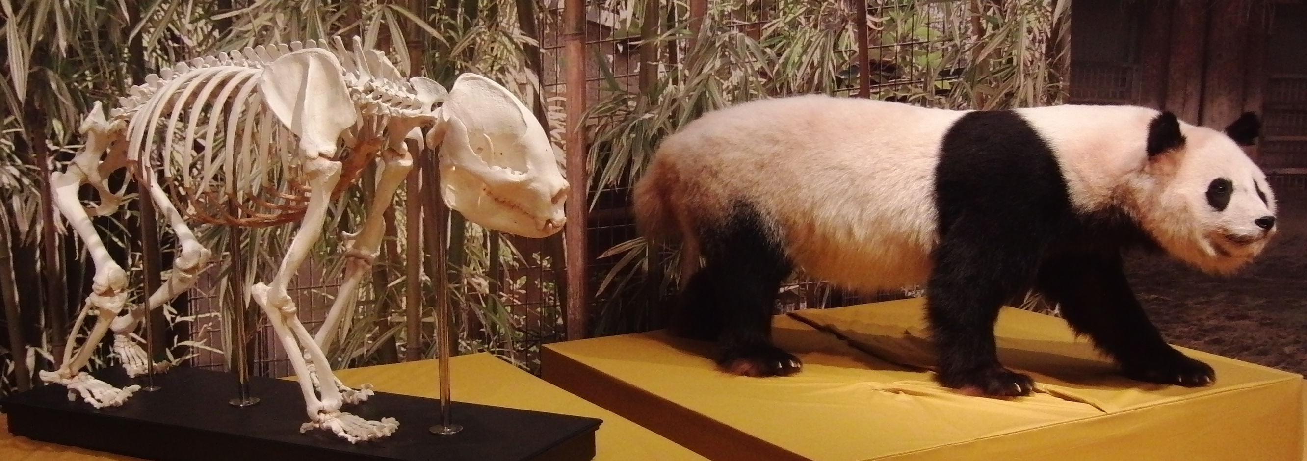 Skeleton and Stuffed Specimen of Giant Panda named "Tong Tong", bred once in the Ueno Zoo, Tokyo, Japan. Exhibition in the National Museum of Nature and Science, Tokyo, Japan. Exhibited in Planned Exhibition "Kahaku Specimen Zoo".